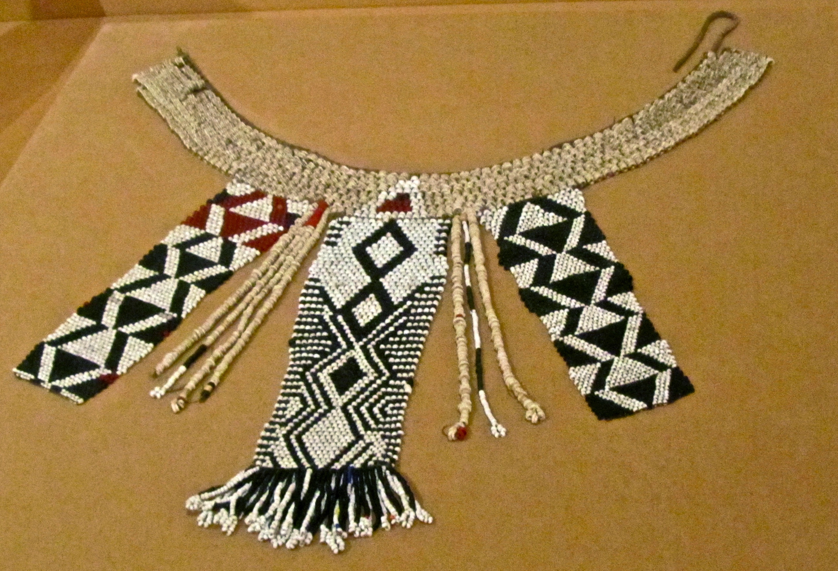 San people Botswana Mumbukushu subgroup sinew, leather, ostrich shell, glass beads 1920-1960